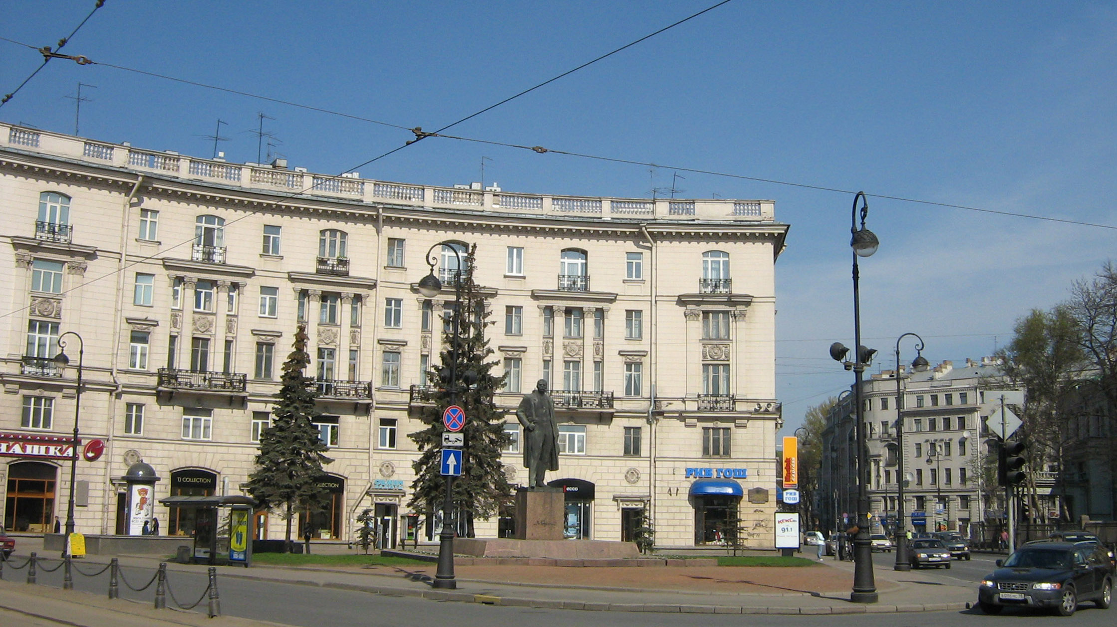 Kamennoostrovski Prospekt, 2, and monument to Maxim Gorky